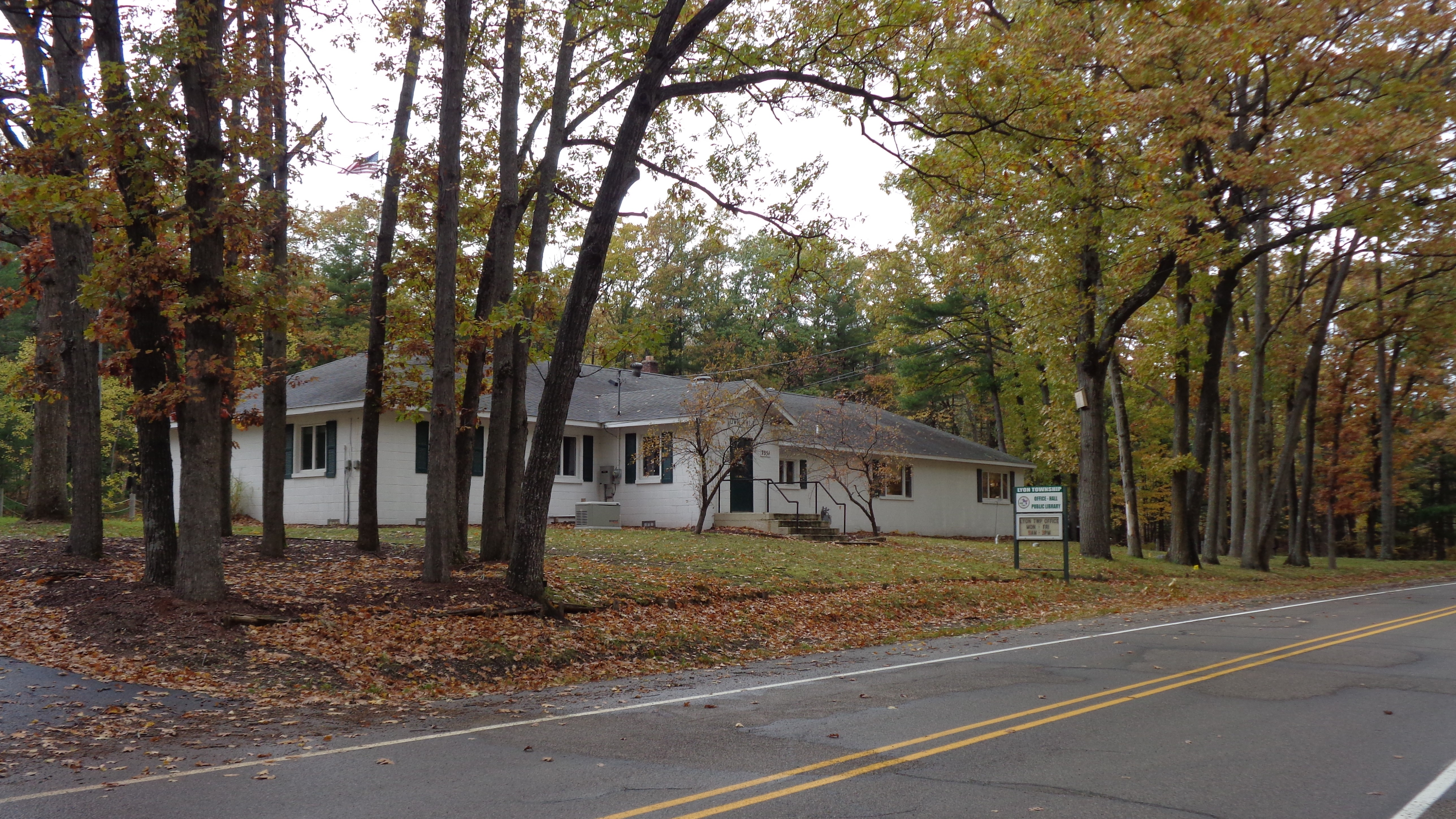 Lyon Township Hall, Michigan